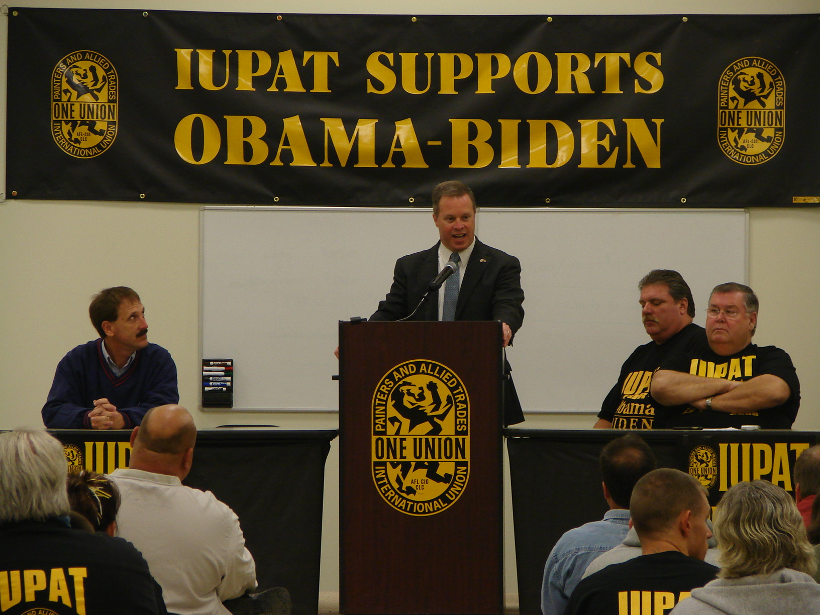 Steve Driehaus at International Union of Painters and Allied Trades's Barack Obama-Joe Biden rally in Cincinnati, OH